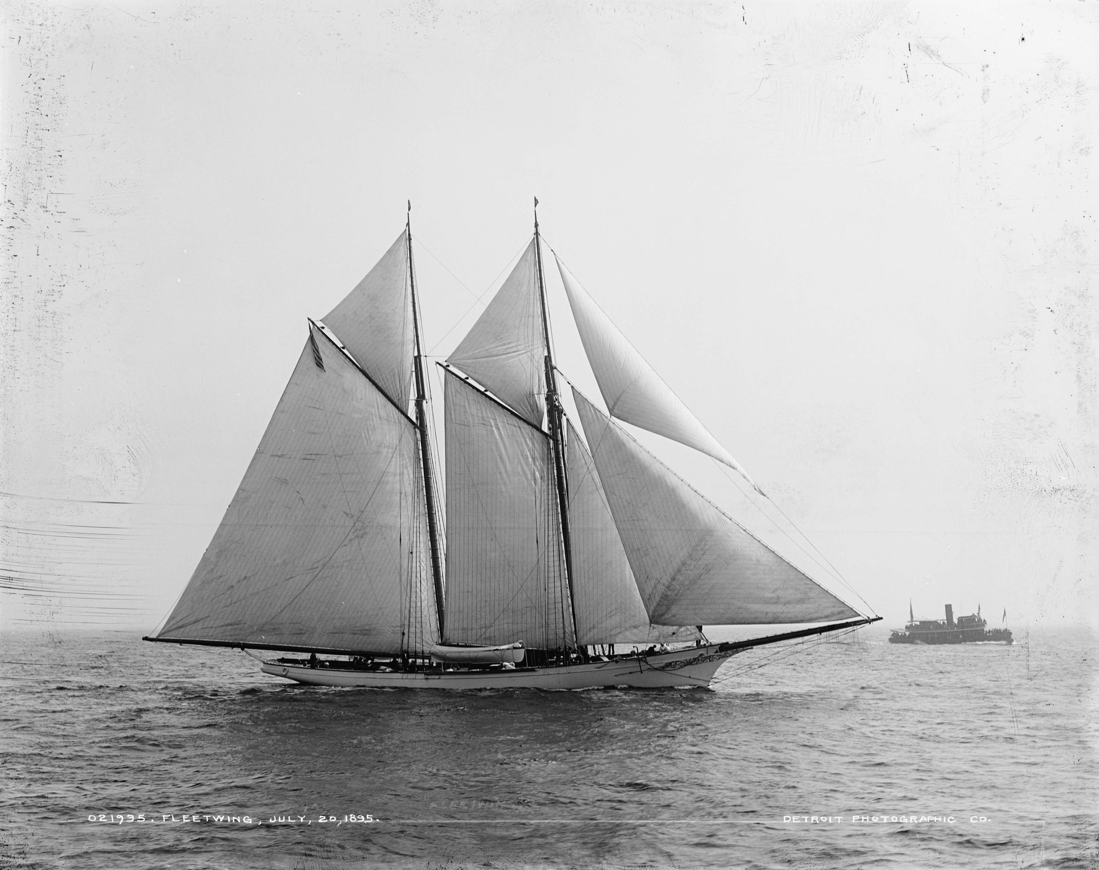 J. G. Chapman's schooner Fleetwing (212 tons GRT, designed and built in 1865 at the Joseph B. Van Deusen shipyard, NY). She was famous for having taken part with her owners Franklin & George A. Osgood in the 1866 Great Ocean Race across the Atlantic Ocean with the schooners Henrietta and Vesta.